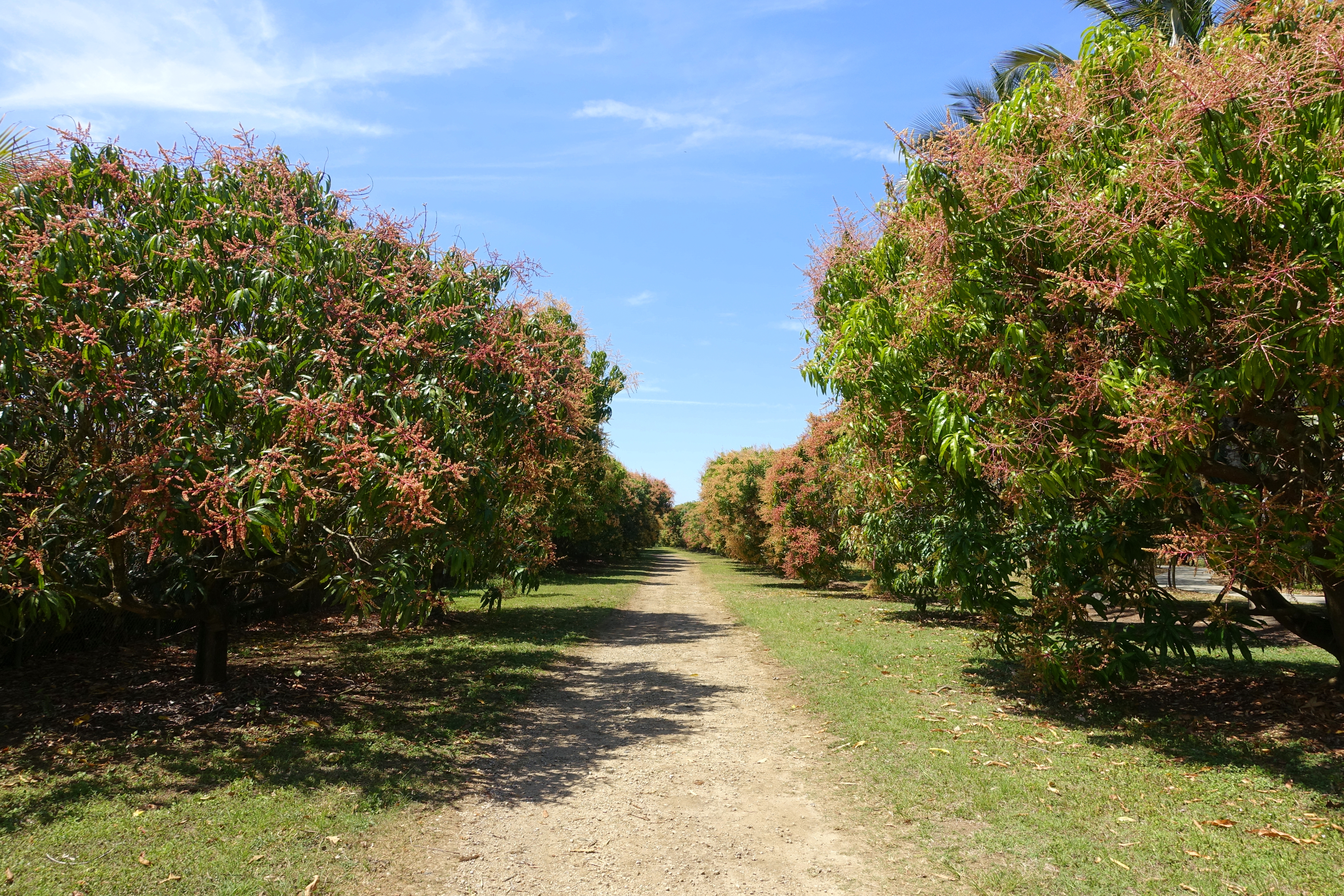 Plant specimen in the Fruit and Spice Park - Homestead, Florida, USA.